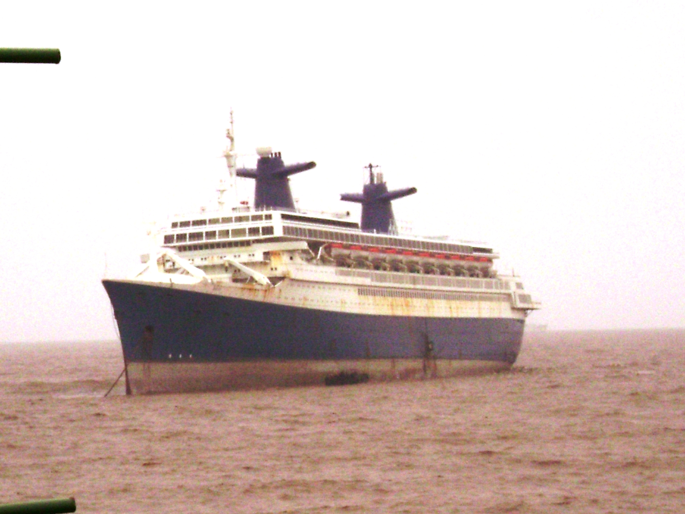 SS France in its avatar of Blue Lady awaits the ship breakers at Alang , August, 2007